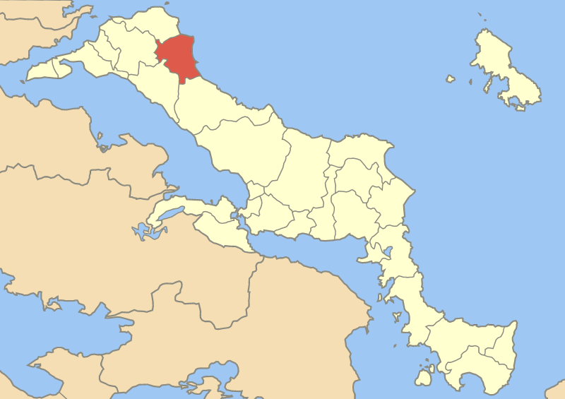 Locator map of Nileas municipality (Δήμος Νηλέως) in Euboea prefecture (Νομός Εύβοιας) in Greece.